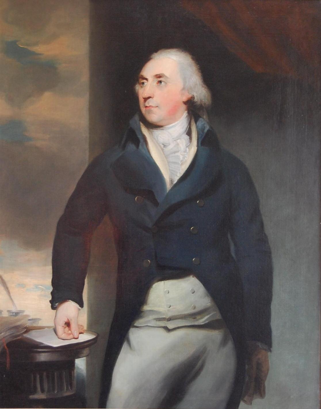 Portrait of William Brabazon Ponsonby, 1st Lord Ponsonby, of Imokilly (1744-1806)